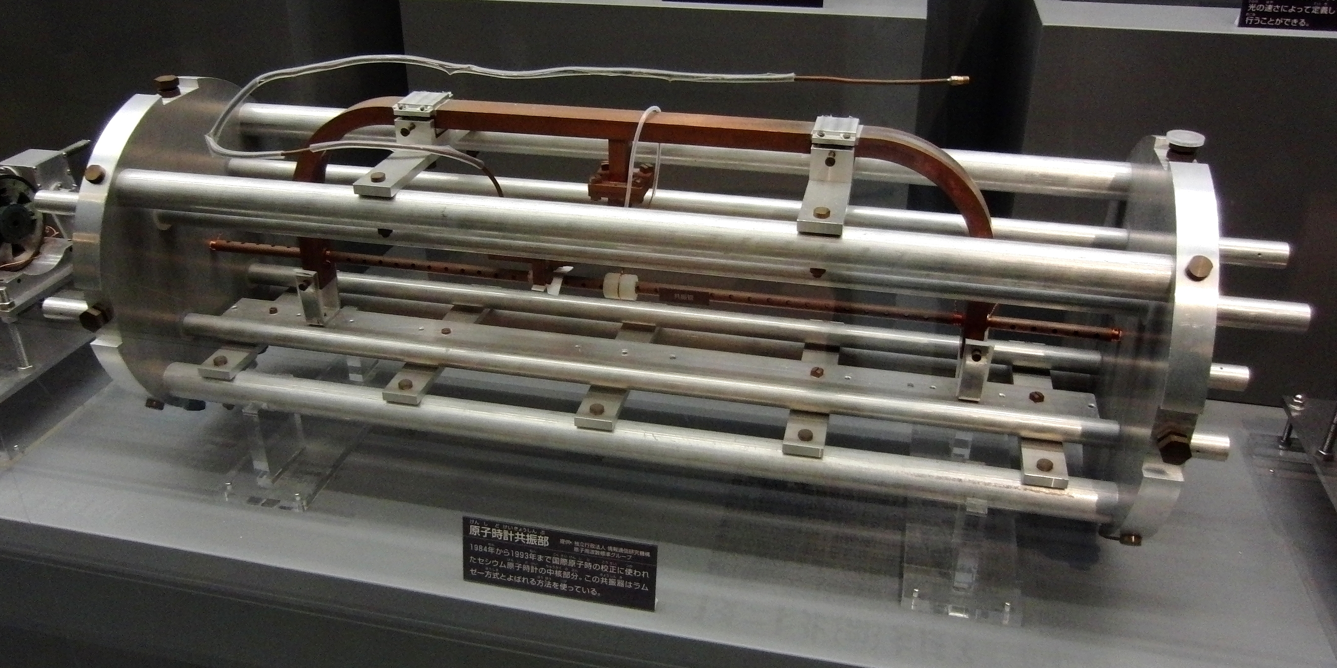 Atomic clock Resonator. Exhibit in the National Museum of Nature and Science, Tokyo, Japan.